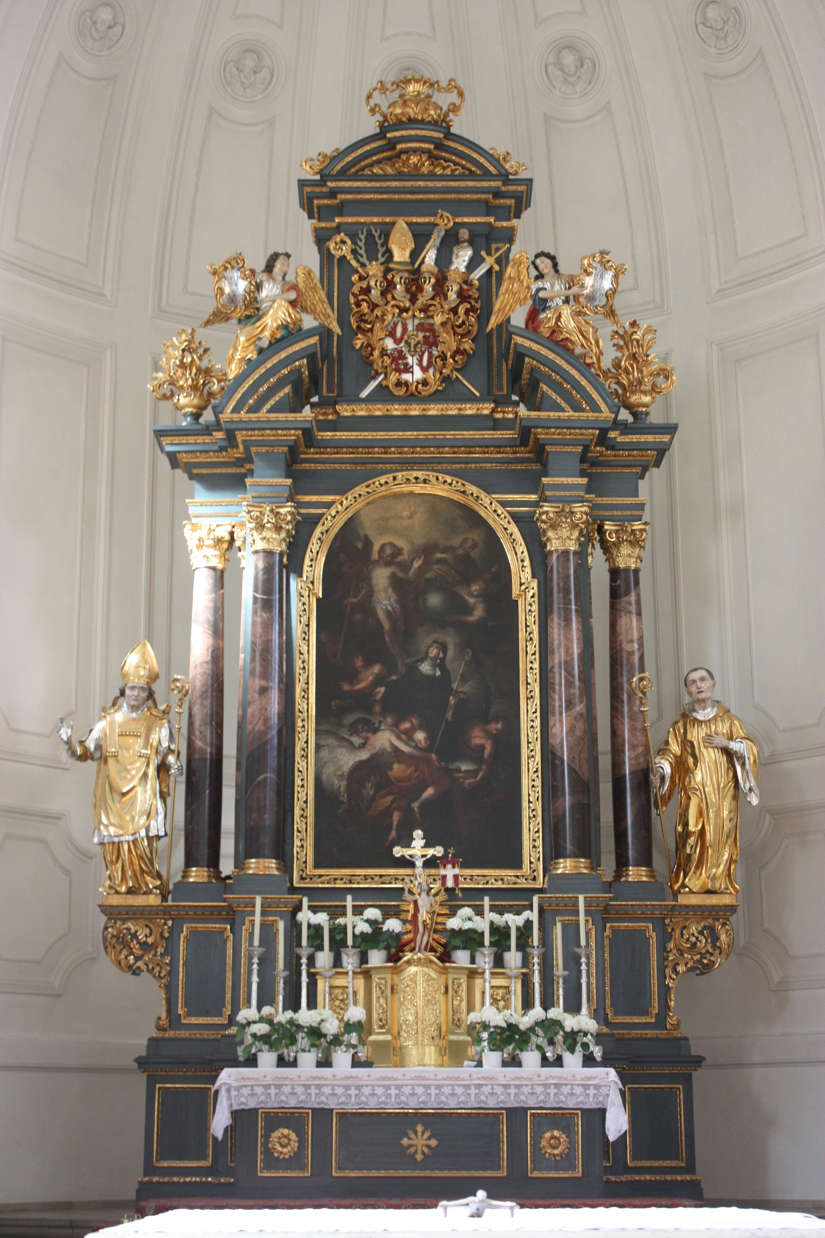 Beilngries, church St. Walburga, the main altar